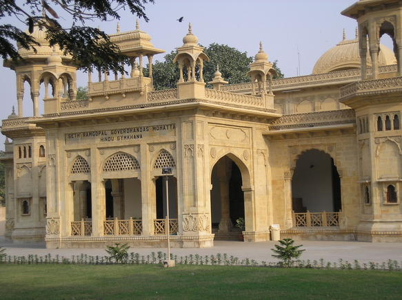 This work is licensed under a Creative Commons License. according to which the image comes in the definition of PD. The photo is available at . Photo by Asad Jugnoo.